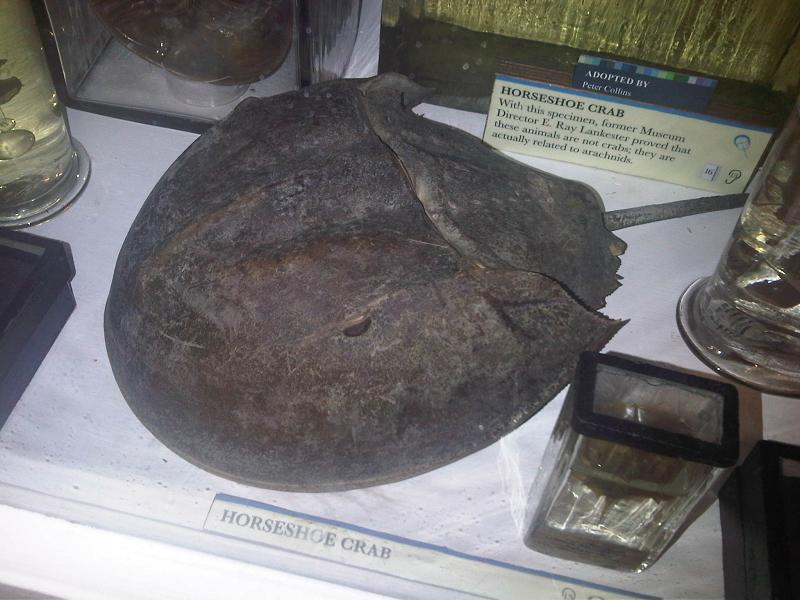 Atlantic horseshoe crab (Limulus polyphemus) in Grant Museum of Zoology, London, England.